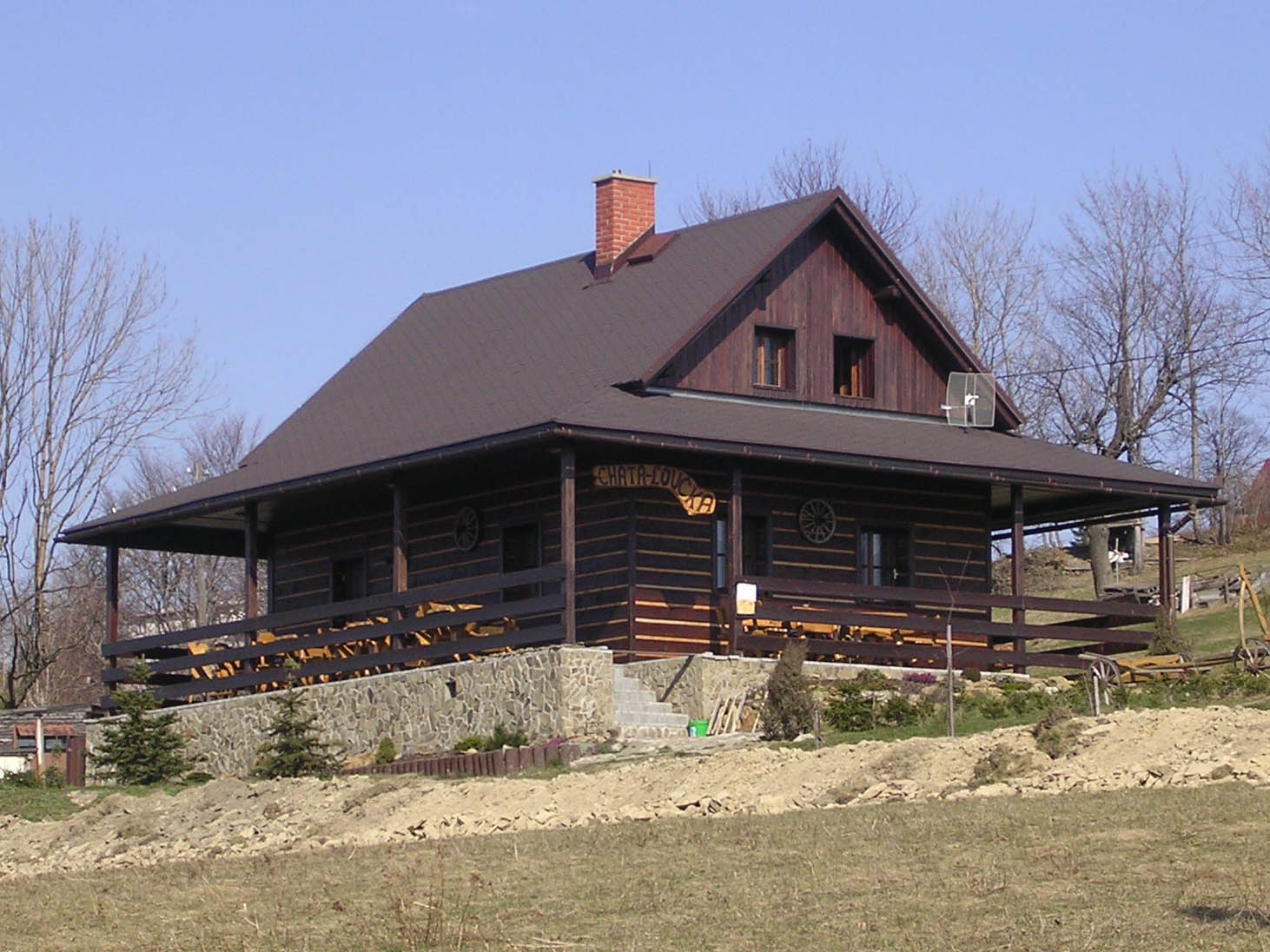 Mountain hut Loučka